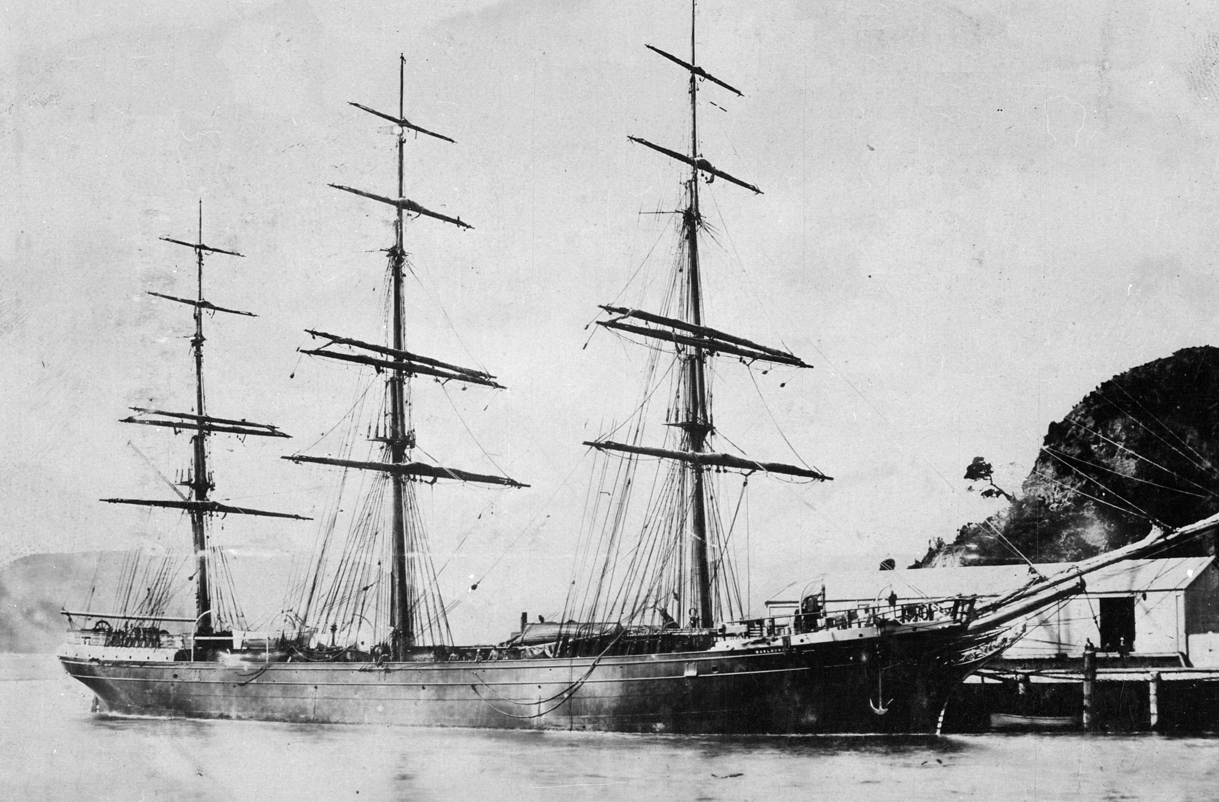 Original caption: “MARLBOROUGH, London. 1347 Tons. Built at Pt. Glasgow. 1876. Missing.”